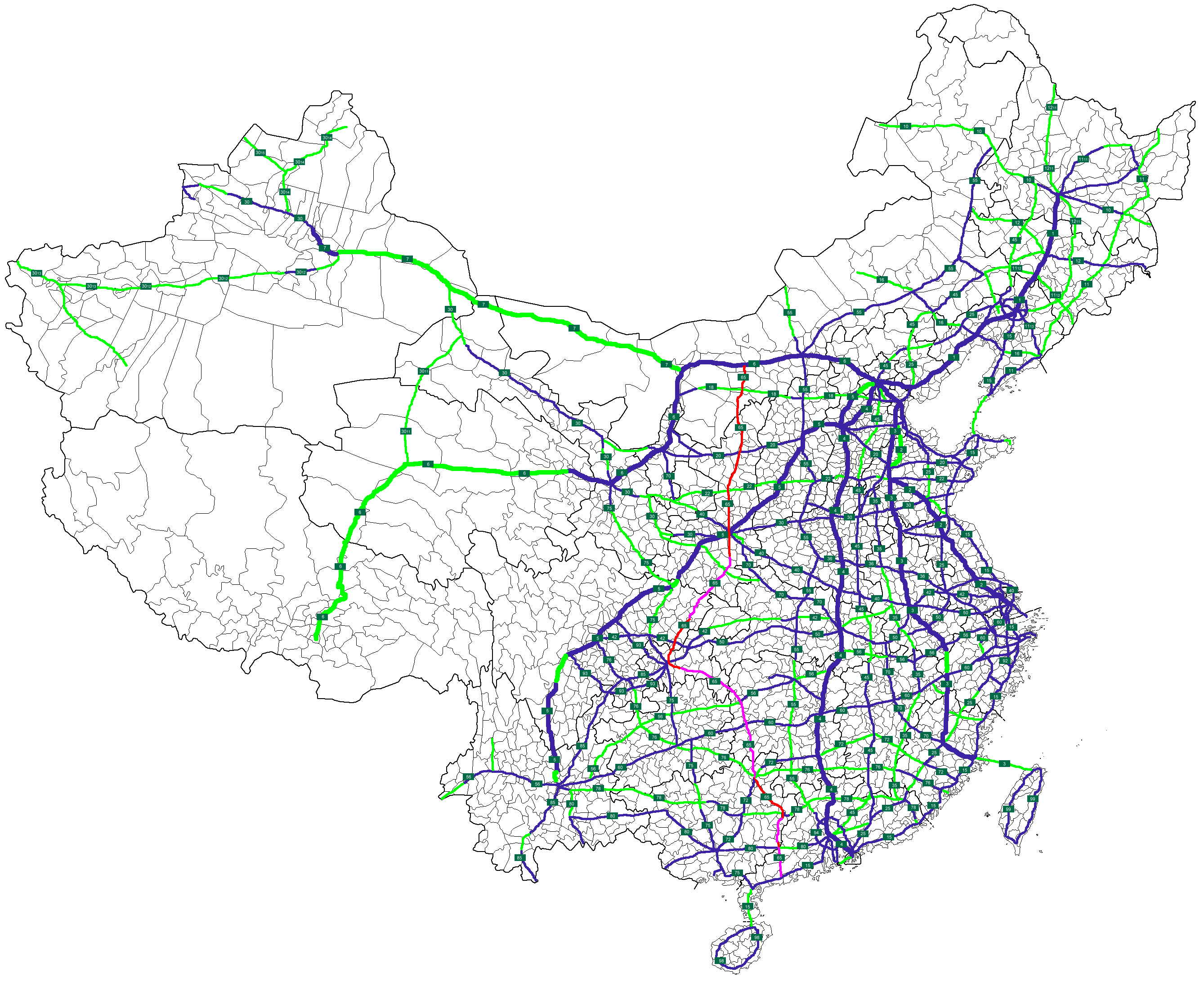 Source file(Map of NTHS Expressways of China.png) was uploaded ASDFGH at en.wikipedia. Later version(s) were uploaded by Nima Farid at en.wikipedia. Modification for NTHS Expressway G65 is my own work.